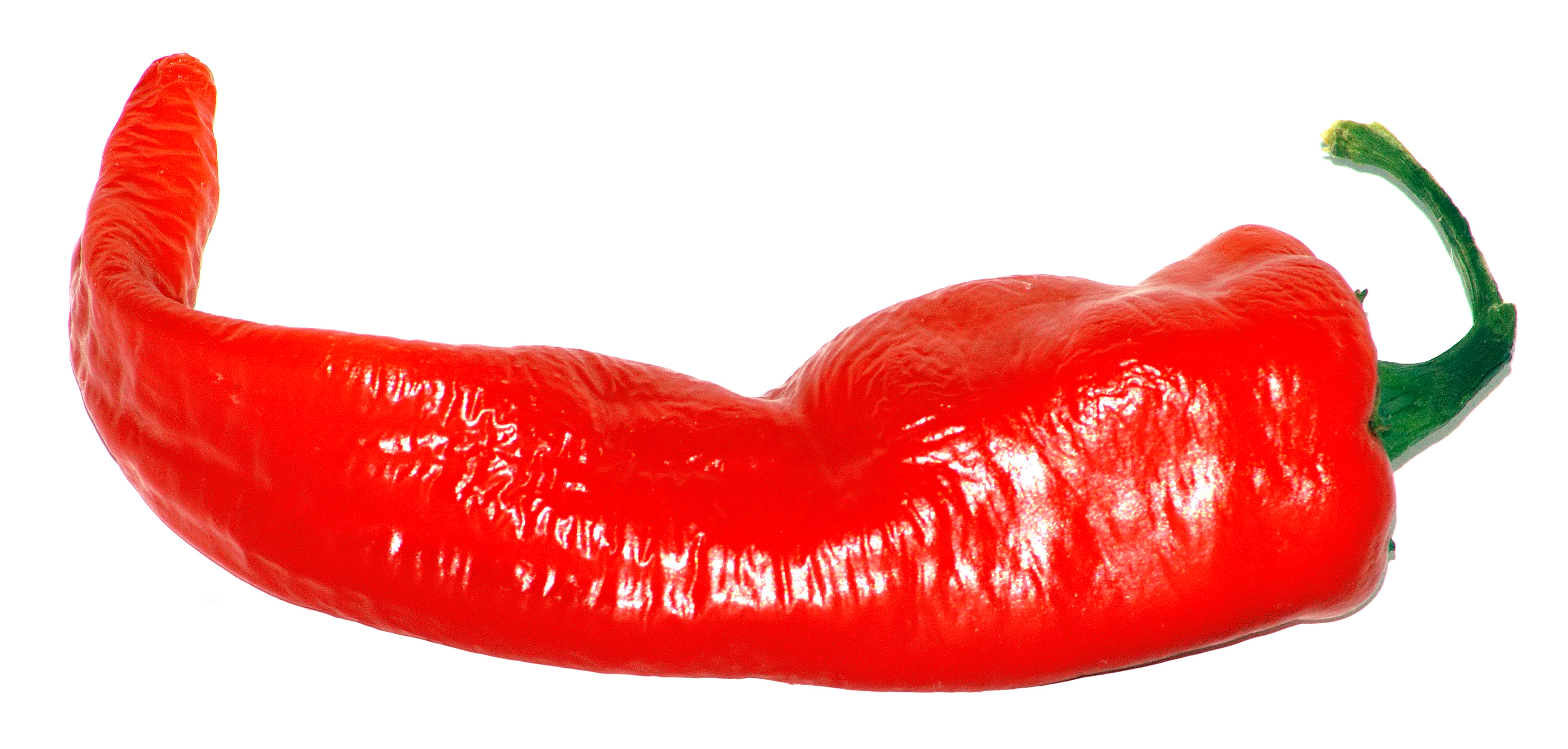 This image shows a Large Cayenne.